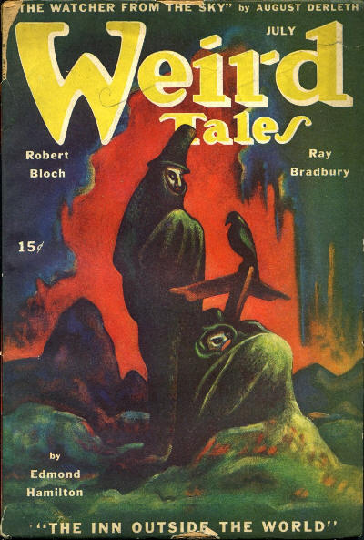 Cover of the pulp magazine Weird Tales (July 1945, vol. 38, no. 6) featuring The Inn Outside the World by Edmond Hamilton. Cover art by Lee Brown Coye.